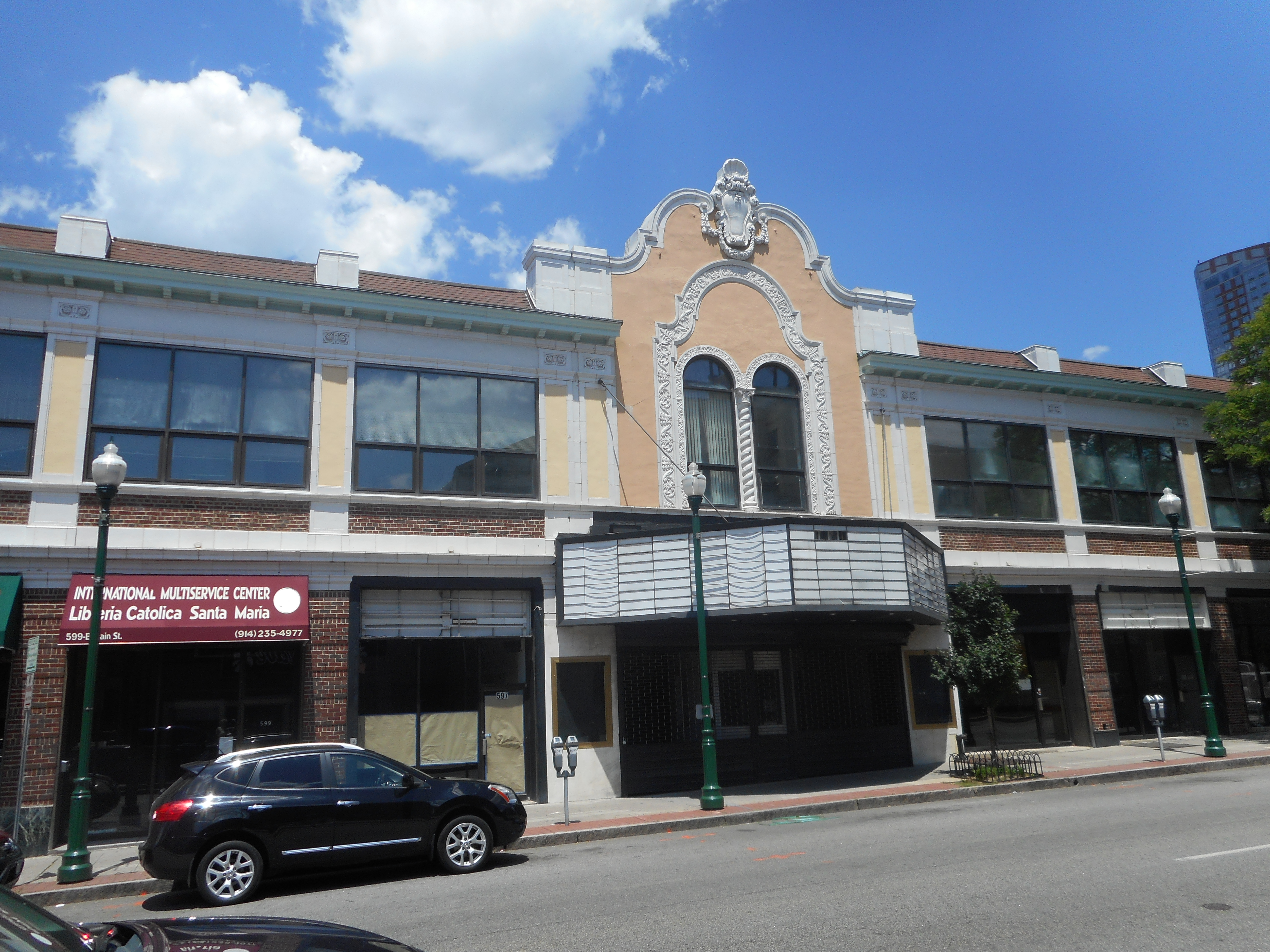 The former Lowe's Theatre Building between 585 and 599 Main Street in New Rochelle, New York. More details to come, hopefully.